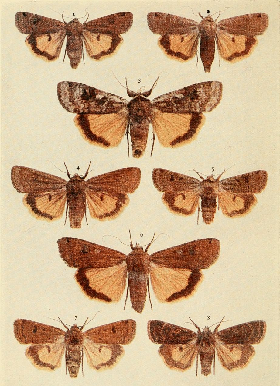 Plate 115. DescriptionBinomial in textModern accepted name1, 2. Lunar Yellow Underwing.Triphæna orbonaNoctua orbona4, 5, 7, 8. Lesser Yellow Underwing.Triphæna comesNoctua comes3, 6. Large Yellow Underwing.Triphæna pronubaNoctua pronuba